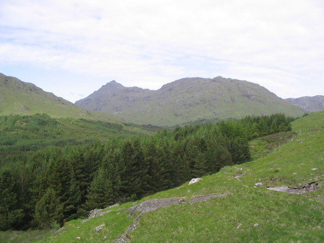 Forest edge in Glen Dessarry Carn Mor is the pointed mountain and Meall nan Spardan the rough rounded one.